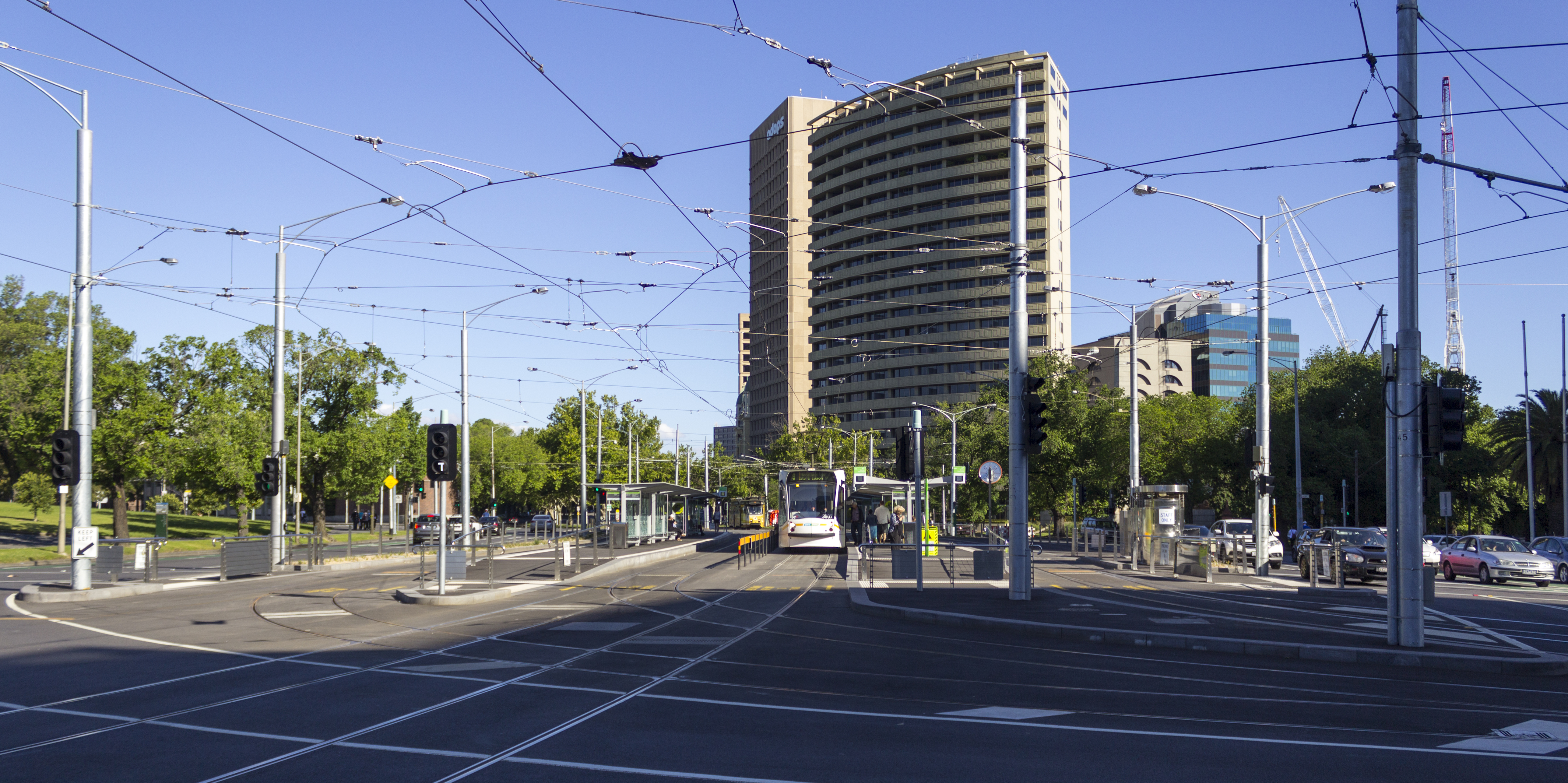 D1 3507 (Melbourne tram) at Domain Interchange, 2013